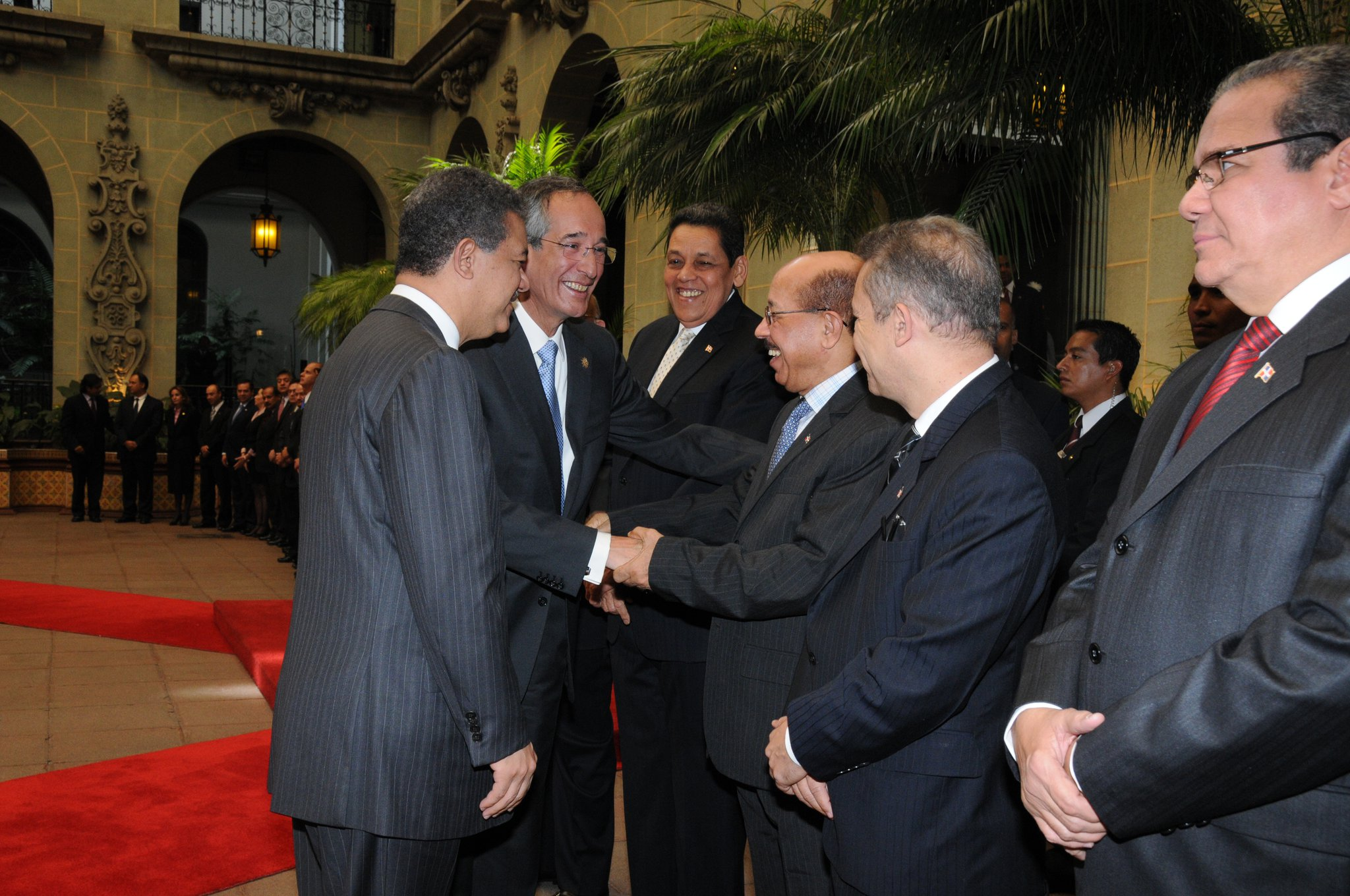 Ministro Temístocles Montás saluda al Presidente Alvaro Colom durante la visita oficial del Presidente de República Dominicana Leonel Fernández a Guatemala.